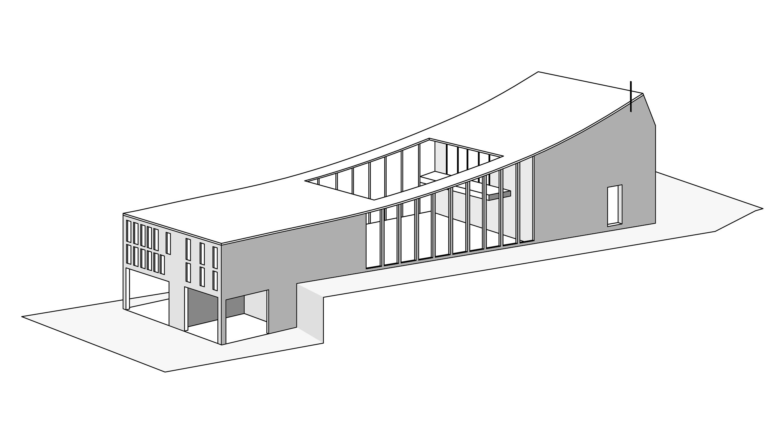 3d drawing of the Walsh Street House.